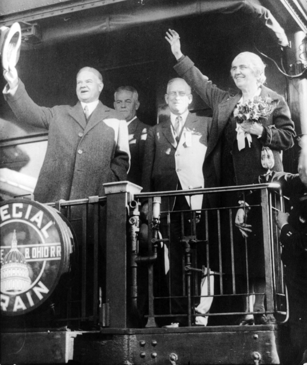 U.S. President Herbert Hoover and his wife Lou Henry standing at the back of a train in Belvidere, Illinois.